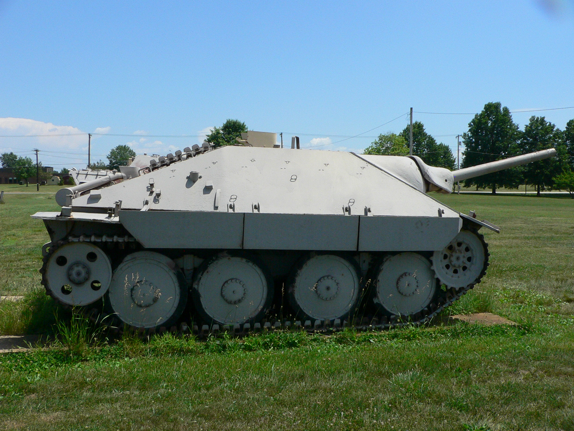 Picture taken by myself, Mark Pellegrini, at the United States Army Ordnance Museum (Aberdeen Proving Ground, MD) on June 12, 2007.